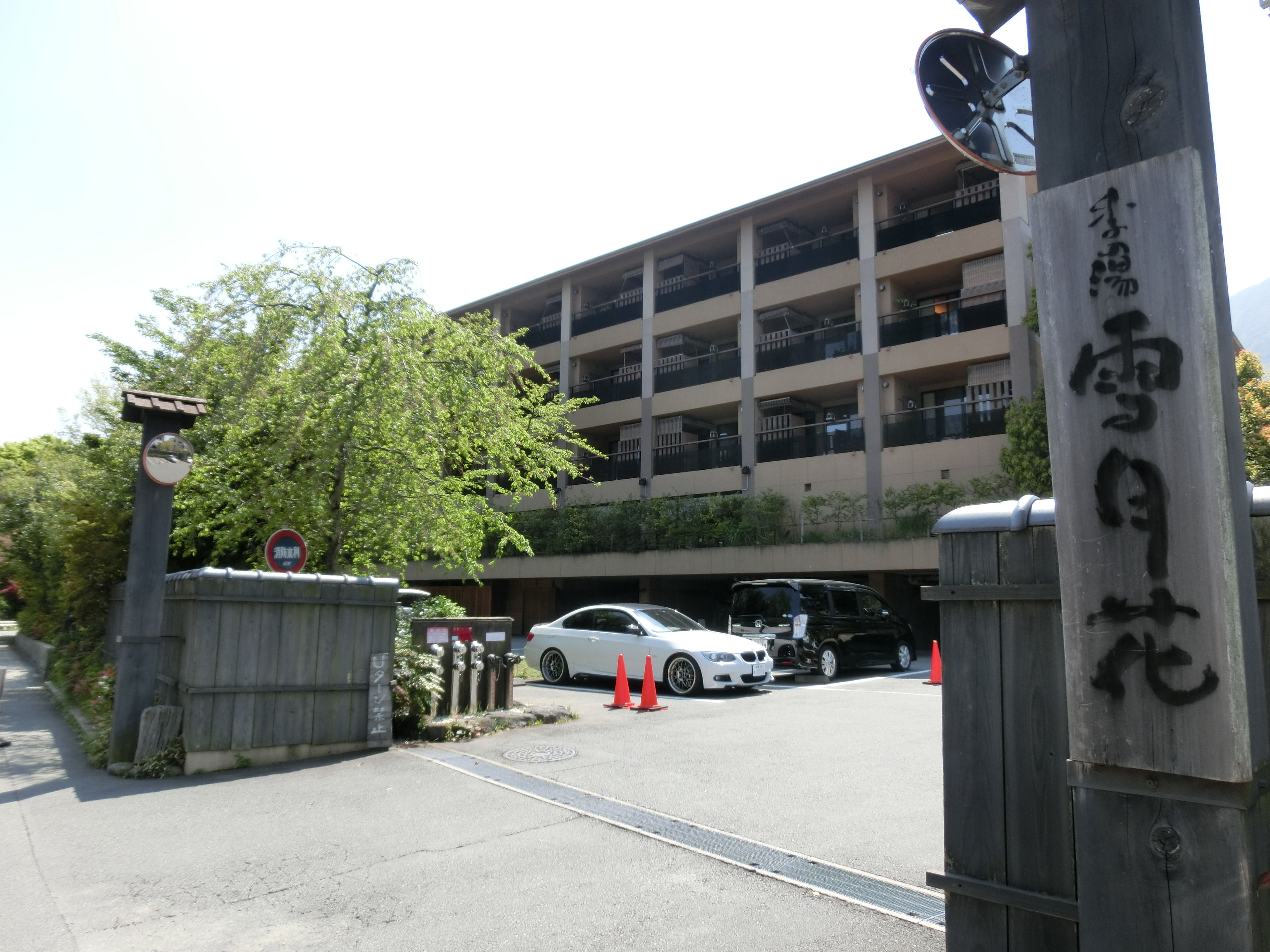 Setsugetsuka Hotel